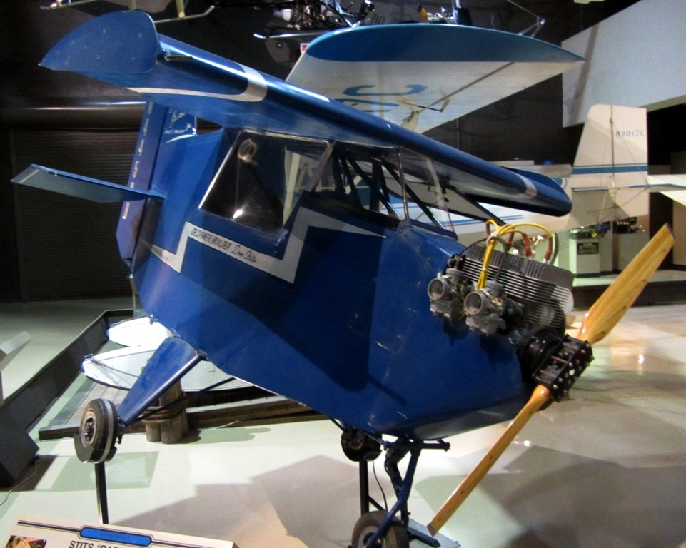 Stits Baby Bird